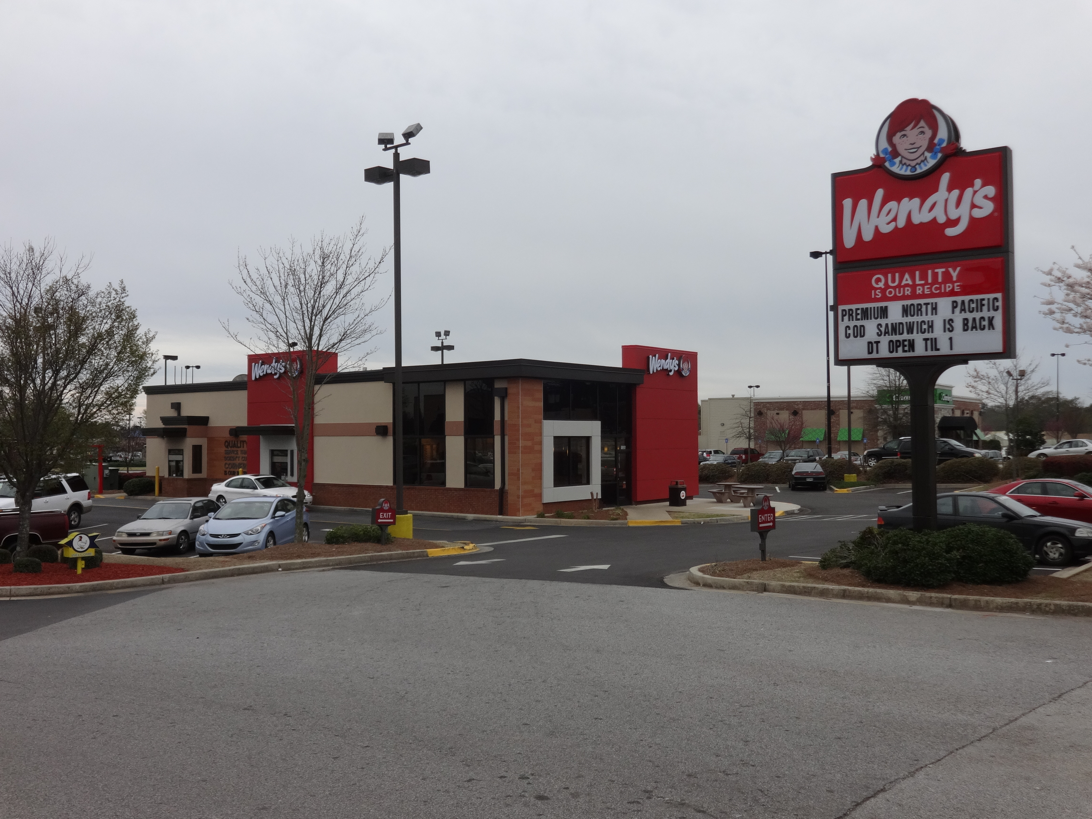 Wendy's (extensively renovated in 2014), 1506 W McIntosh Rd (GA92), Griffin, Spalding County, Georgia